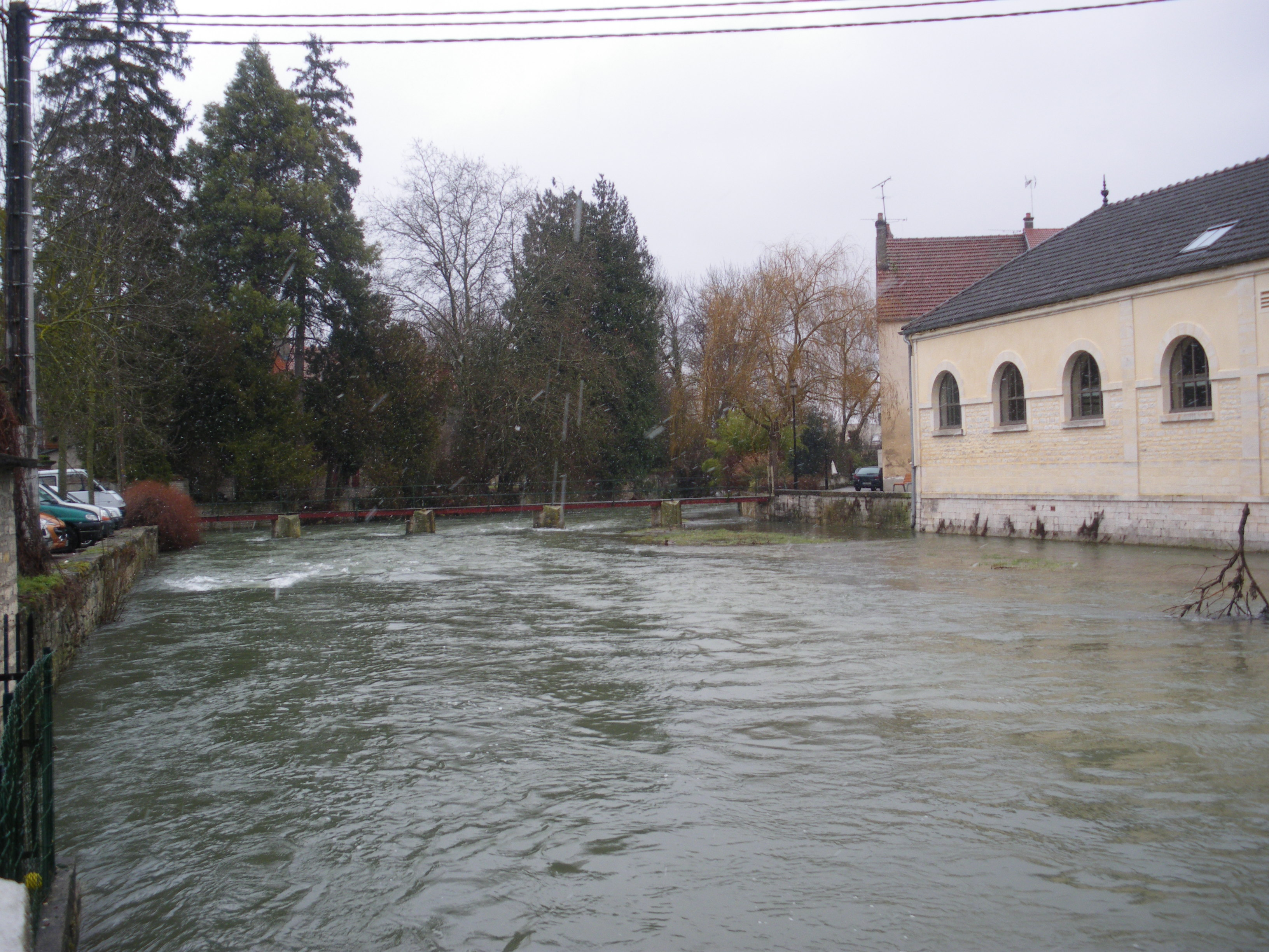 Ignon river in Is sur Tille, Burgundy, France